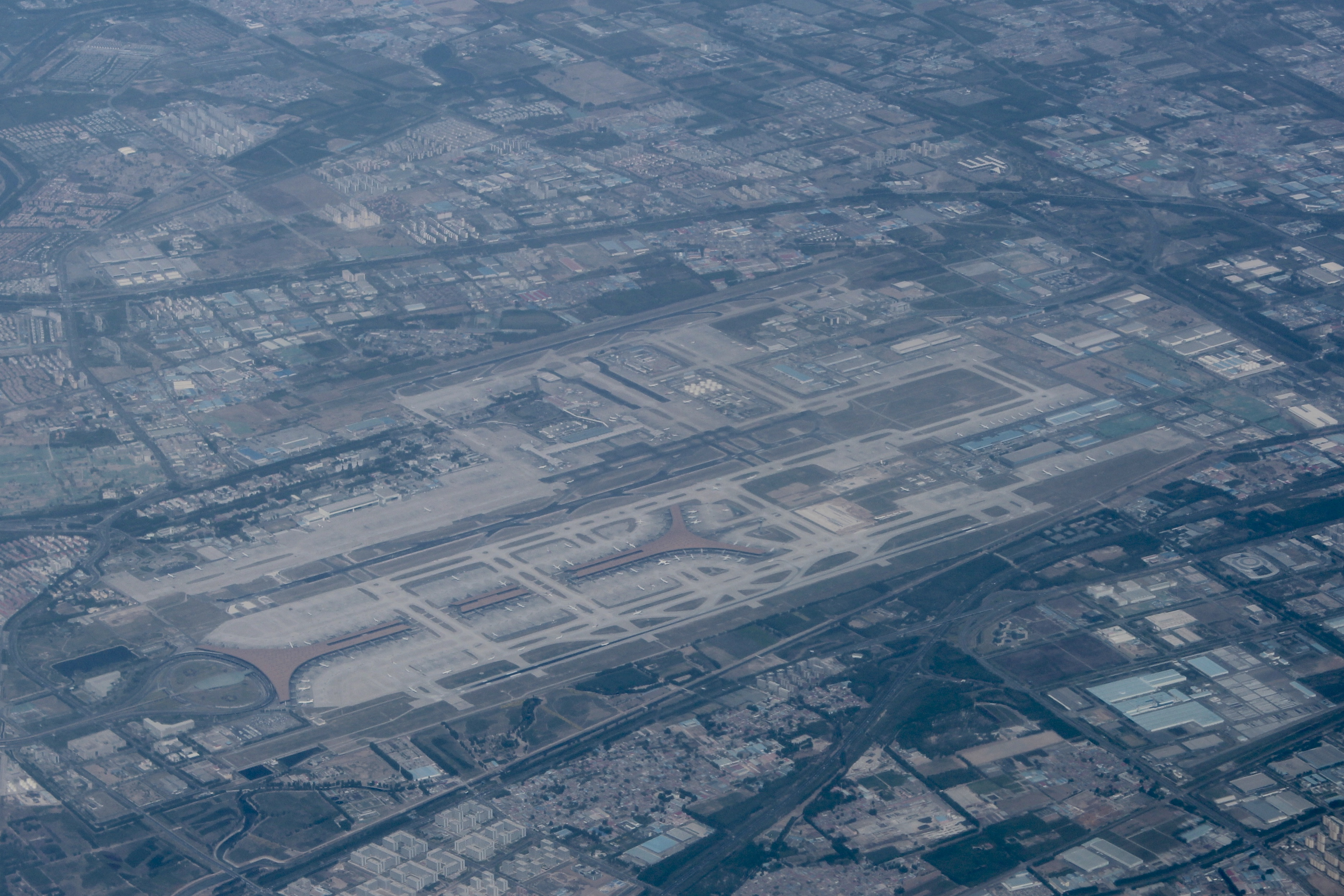 Beijing Capital International Airport as seen from a Boeing 777-300 flying above.